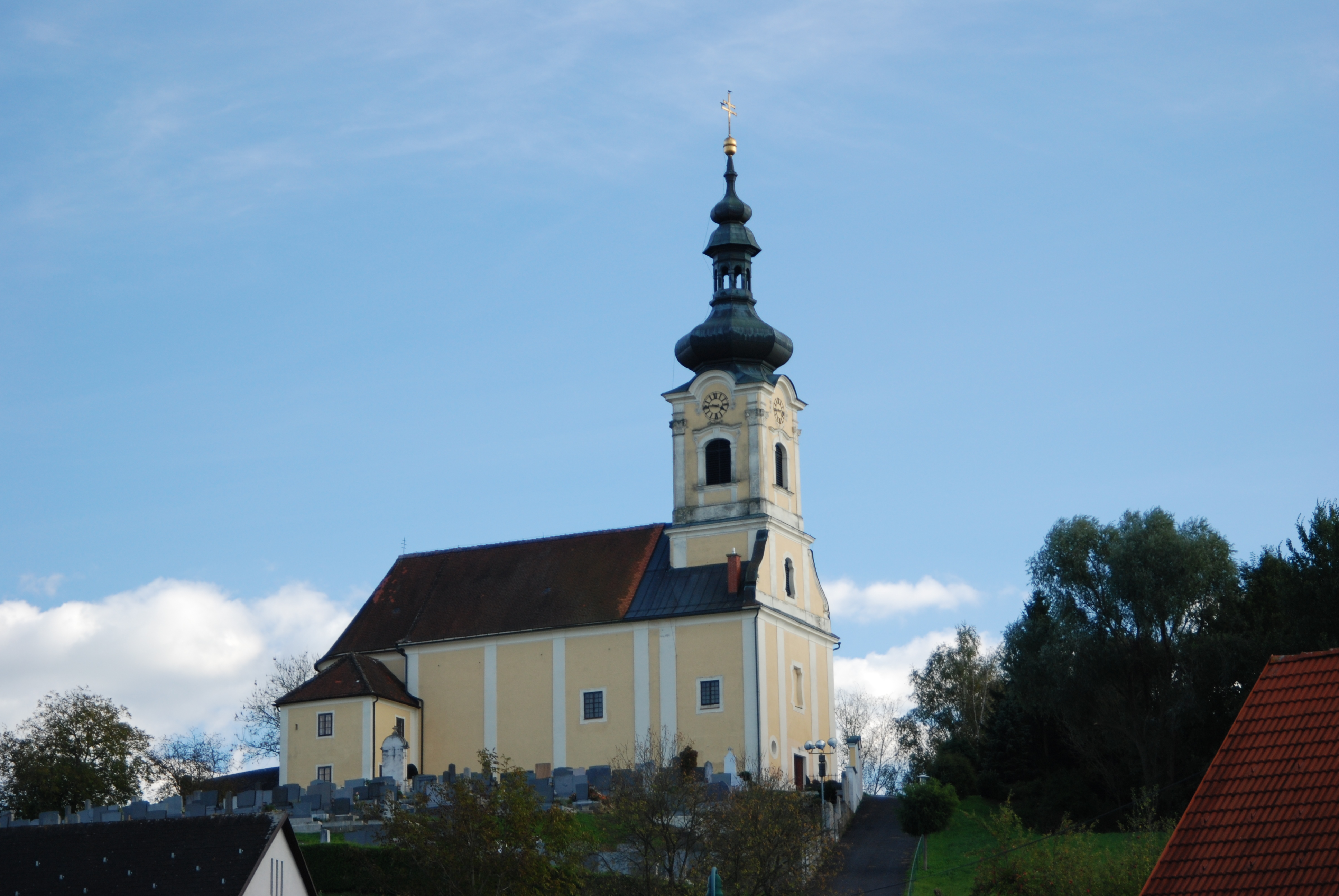 Pfarrkirche St. Martin an der Raab